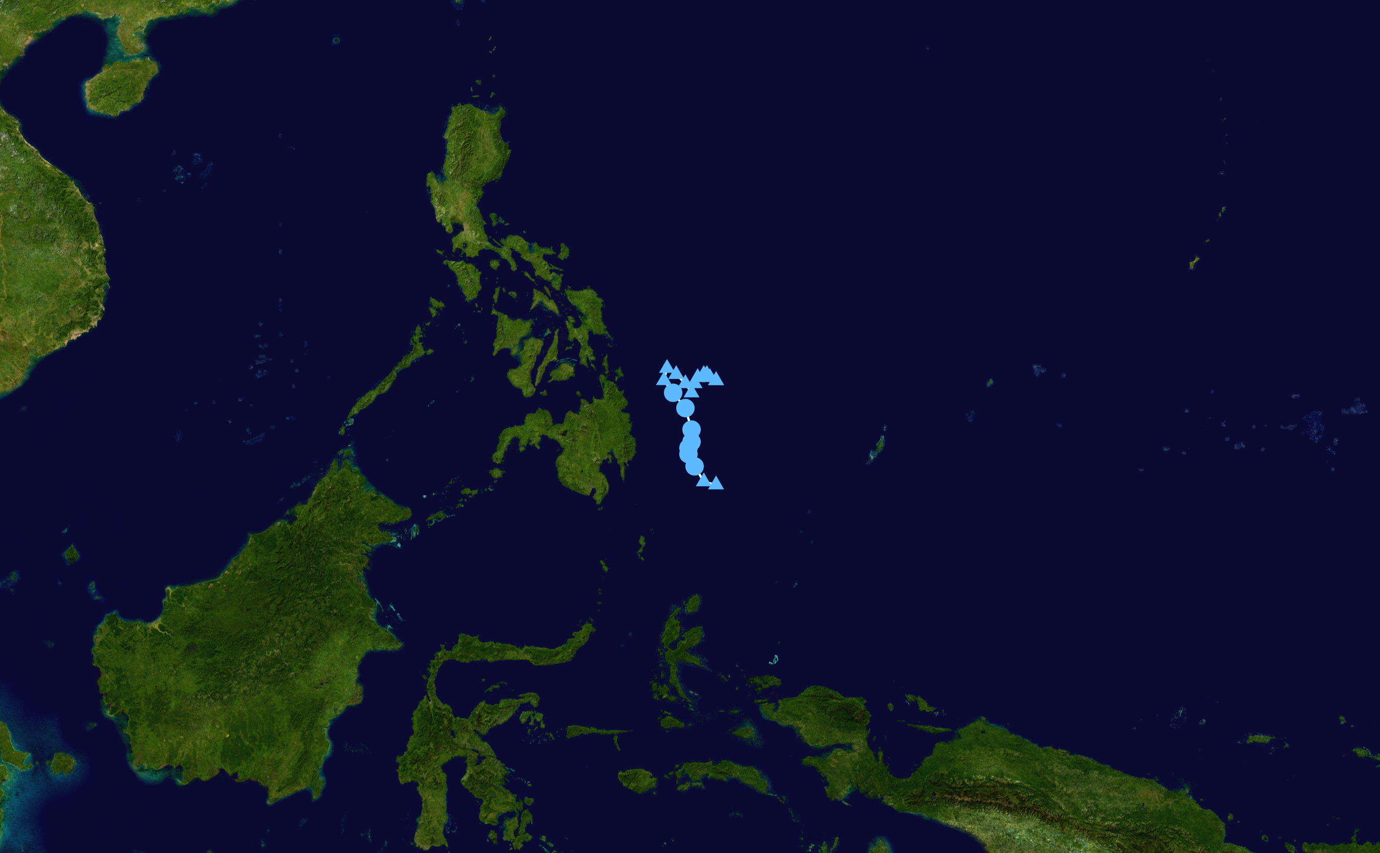 Track map of Tropical Storm Lingling of the 2014 Pacific typhoon season. The points show the location of the storm at 6-hour intervals. The colour represents the storm's maximum sustained wind speeds as classified in the Saffir–Simpson scale (see below), and the shape of the data points represent the nature of the storm, according to the legend below. Saffir–Simpson scale Tropical depression≤38 mph≤62 km/h Category 3111–129 mph178–208 km/h Tropical storm39–73 mph63–118 km/h Category 4130–156 mph209–251 km/h Category 174–95 mph119–153 km/h Category 5≥157 mph≥252 km/h Category 296–110 mph154–177 km/h Unknown Storm type Tropical cyclone Subtropical cyclone Extratropical cyclone / Remnant low / Tropical disturbance / Monsoon depression